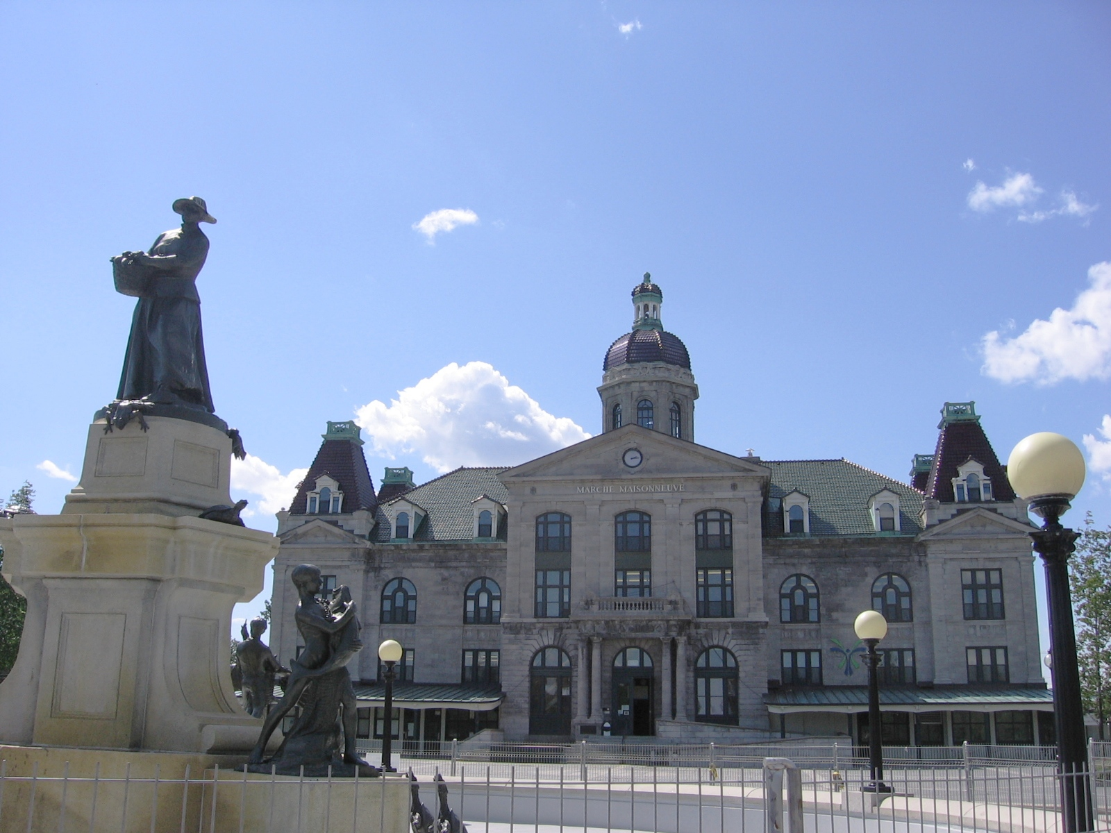 Marché Maisonneuve building with statue La Fermière by Alfred Laliberté, Hochelaga-Maisonneuve neighbourhood, borough of Mercier–Hochelaga-Maisonneuve, Montréal.